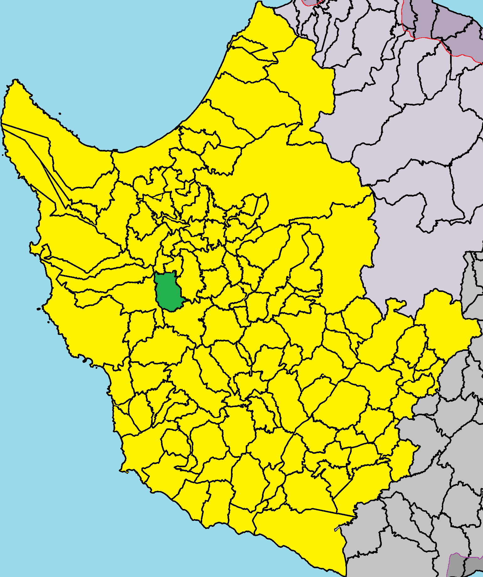 Theletra in Paphos District.